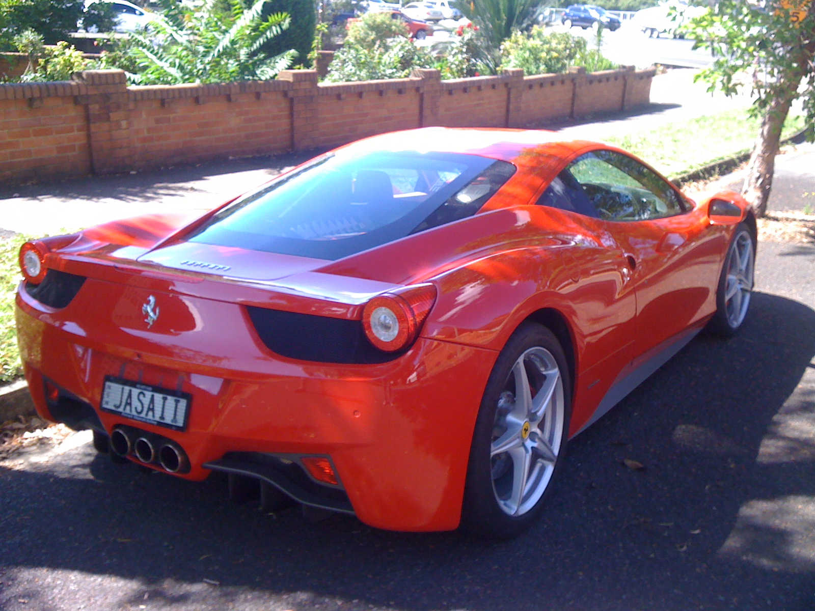 A Ferrari 458 Italia in Sydney, Australia.